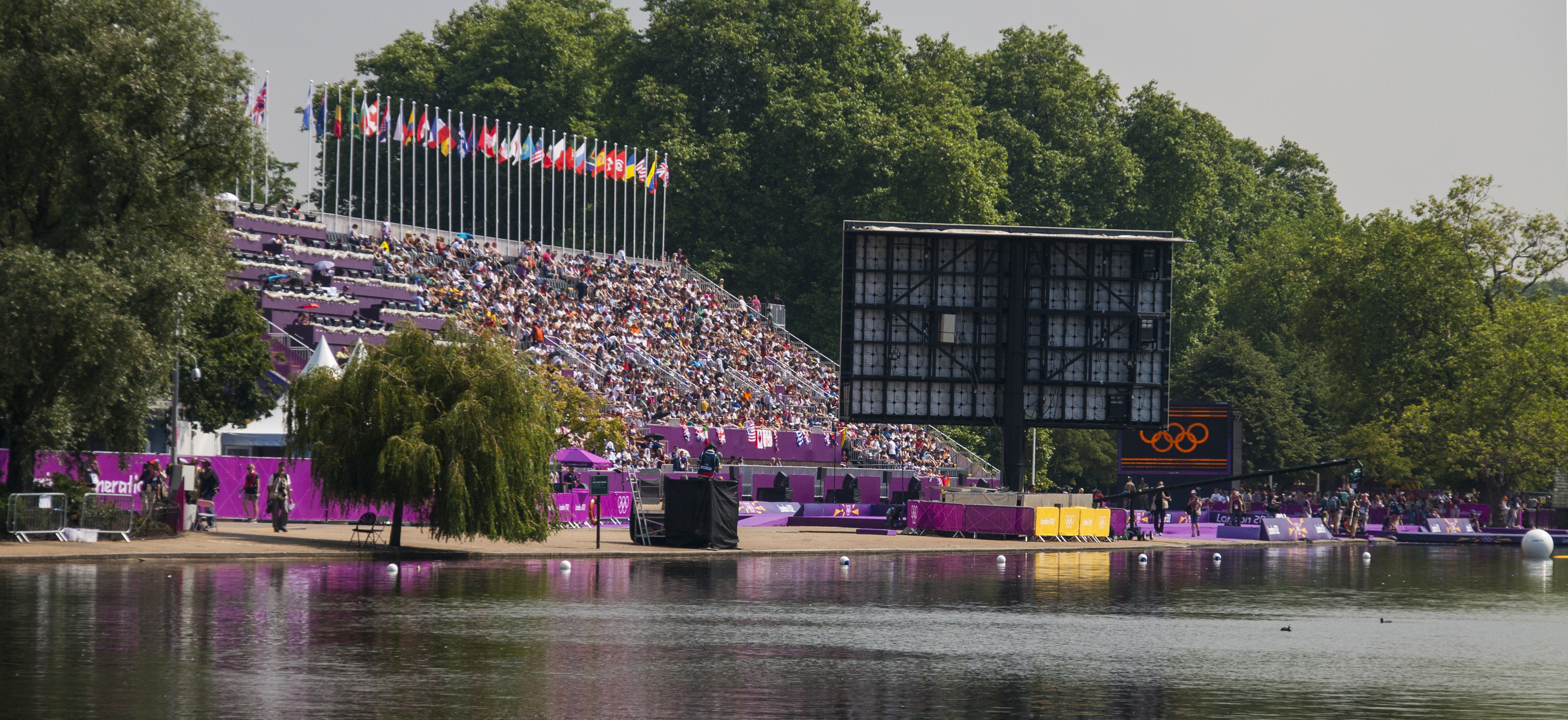 Spectators at the men's 10 kilometre marathon swim at the 2012 Olympic Games in the Serpentine at Hyde Park.